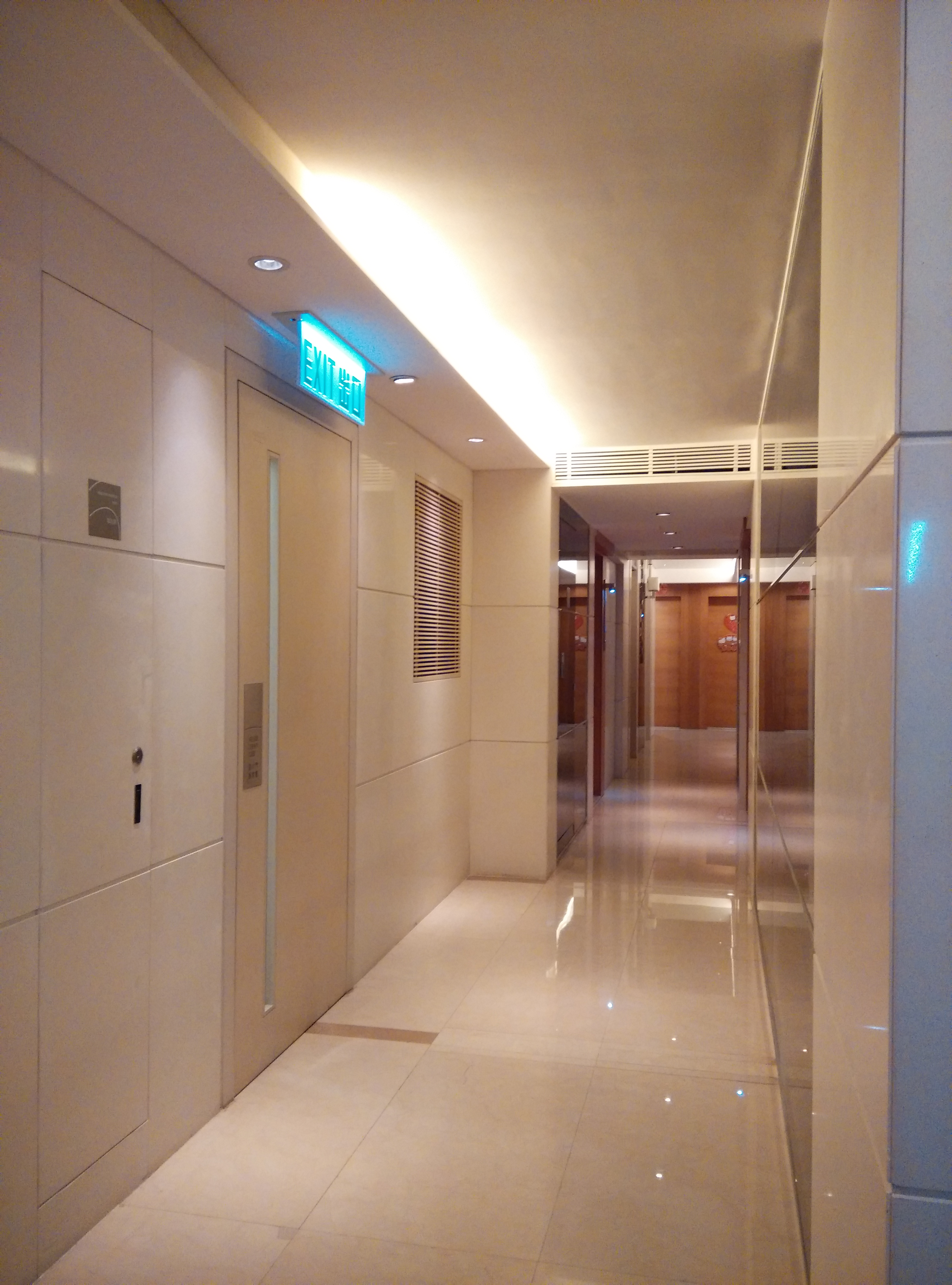 Hallway of Harbor place